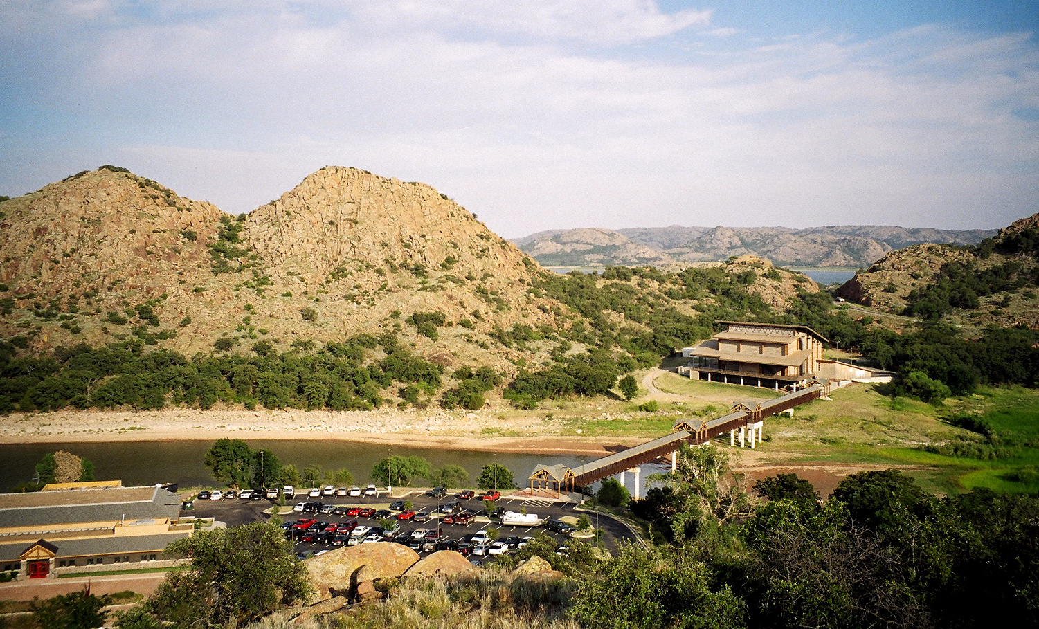 The Twin Peaks Performance Hall at the Quartz Mountain Resort Arts and Conference Center in Greer County, Oklahoma, United States, as seen overlooking the main building.